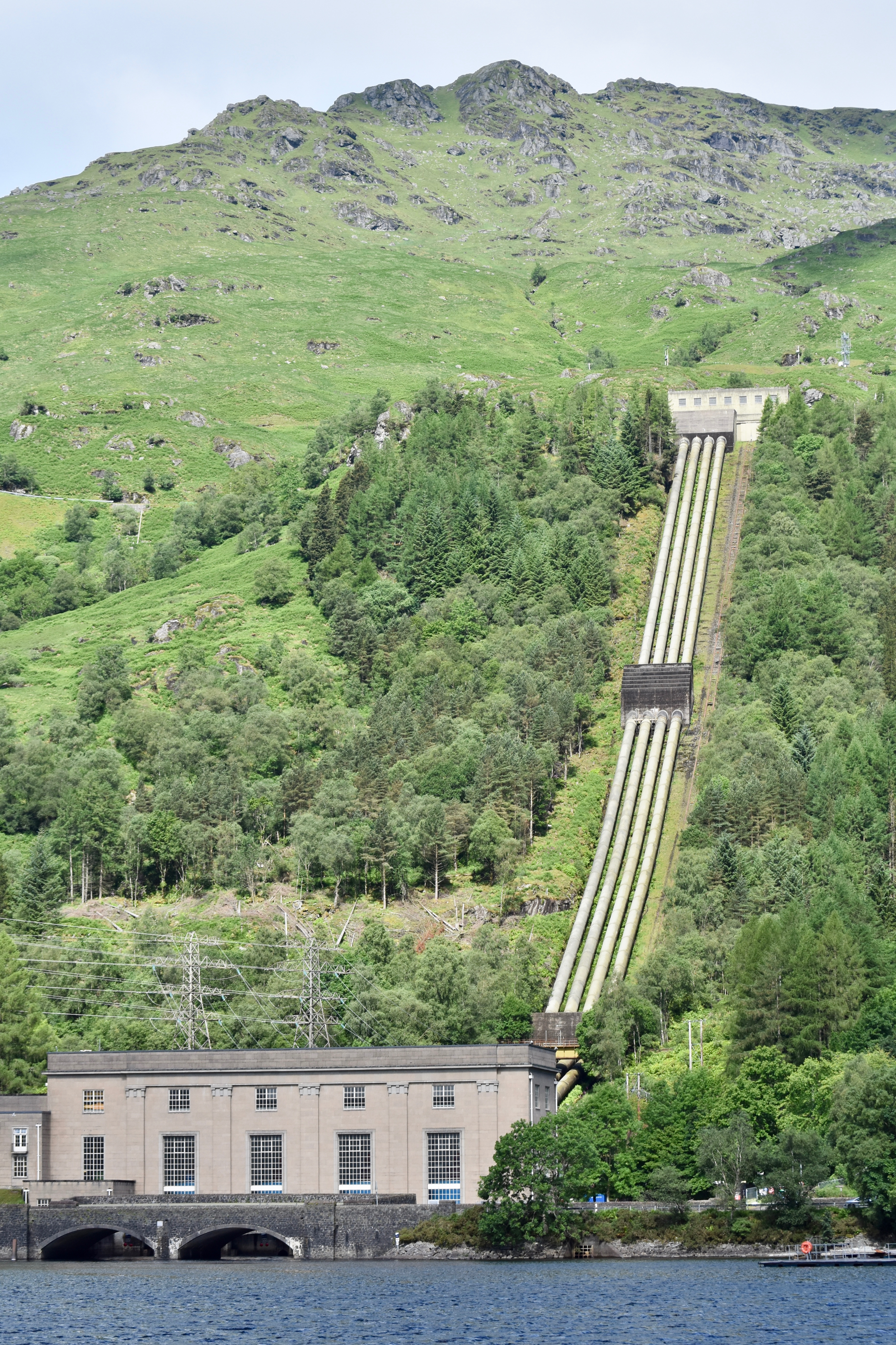 Sloy Power Station